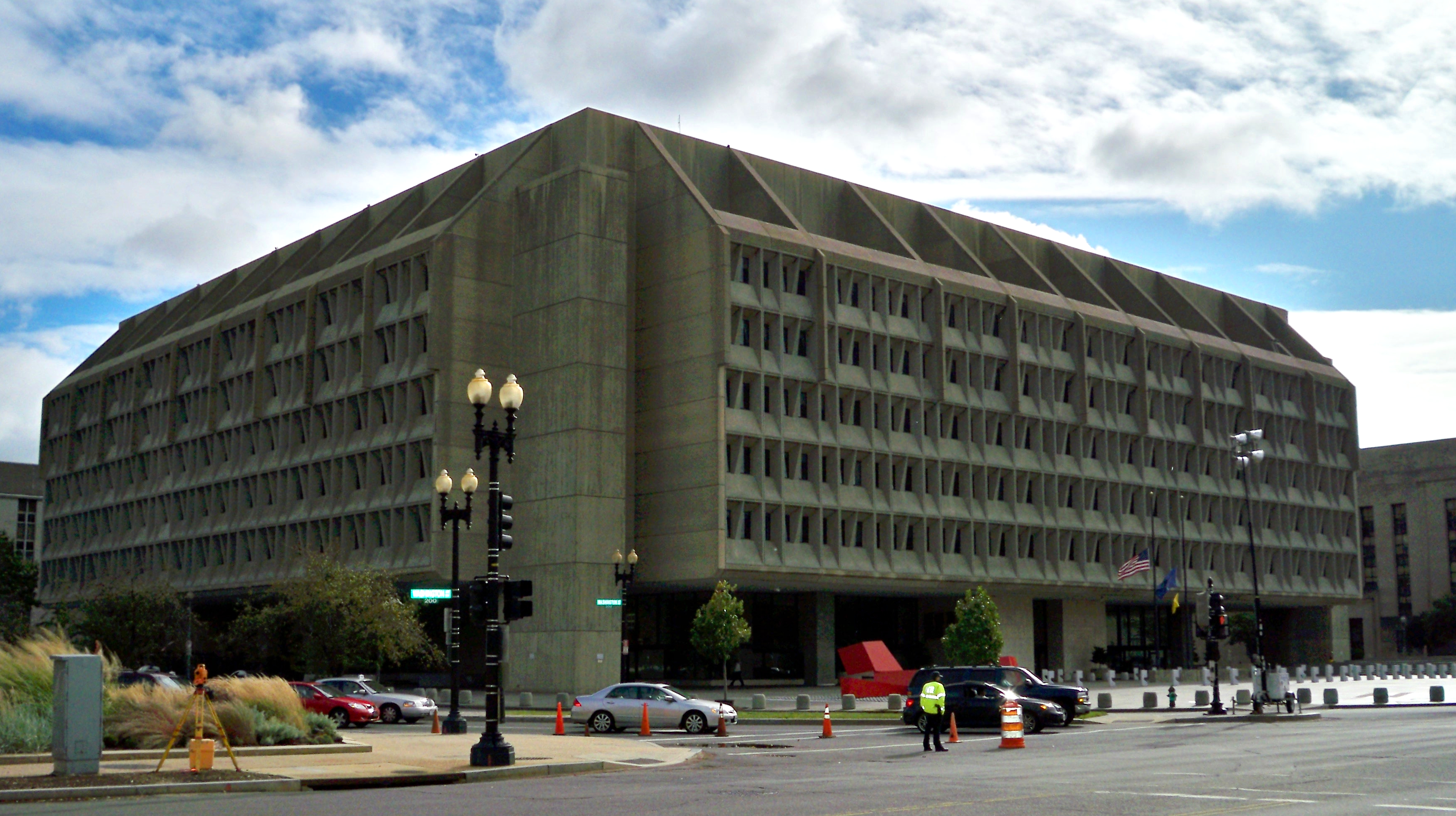 The Department of Health and Human Services headquarters by the National Mall.